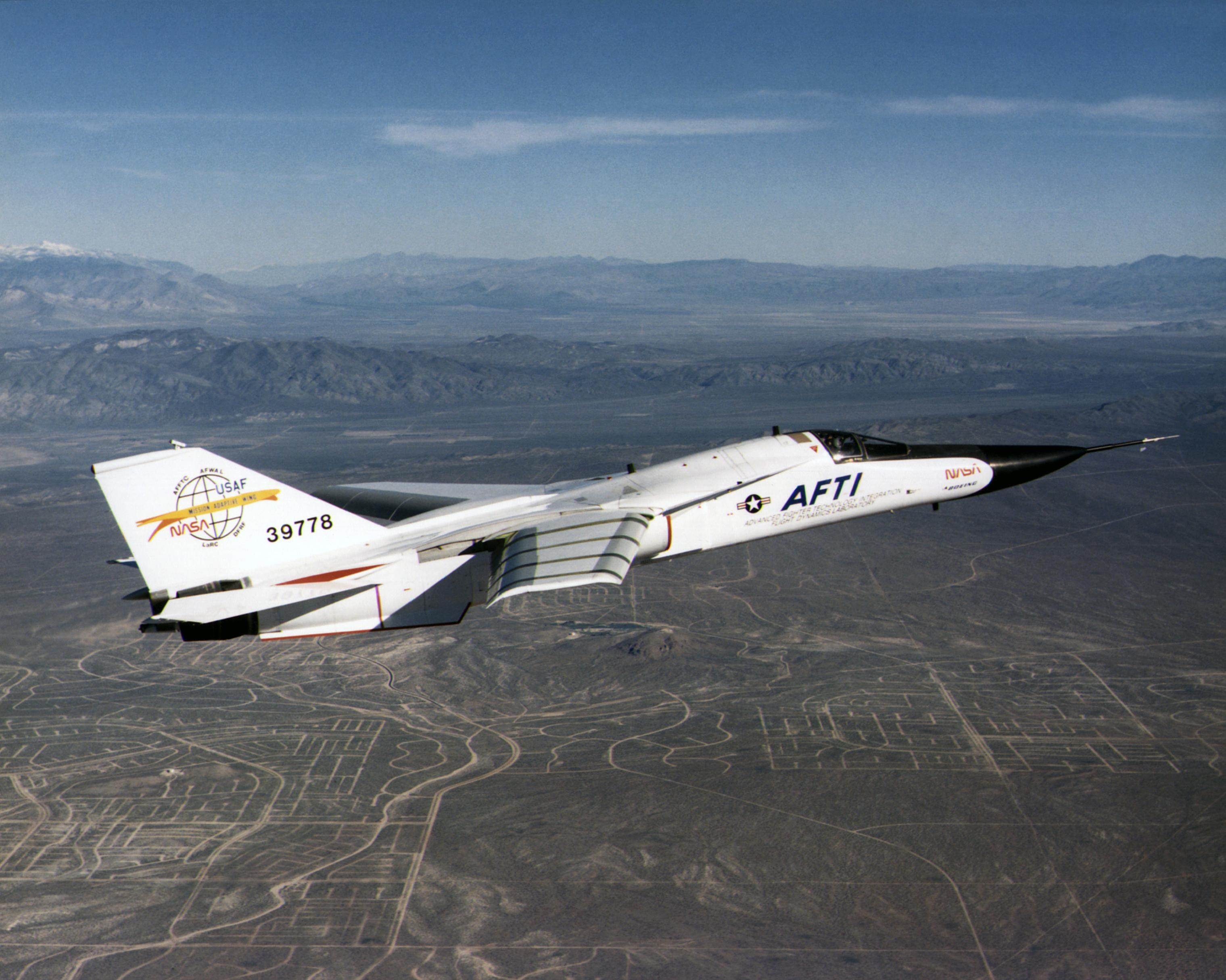 This photograph shows a modified General Dynamics AFTI/F-111A Aardvark in flight with supercritical mission adaptive wings (MAW) installed. With the phasing out of the Transonic Aircraft Technology (TACT) project came a renewed effort by the Air Force Flight Dynamics Laboratory to extend supercritical wing technology to a higher level of performance. In the early 1980s the supercritical wing on the F-111A aircraft was replaced with a wing built by The Boeing Aircraft Company called a mission adaptive wing (MAW), and a joint NASA and Air Force project called Advanced Fighter Technology Integration (AFTI) was born.